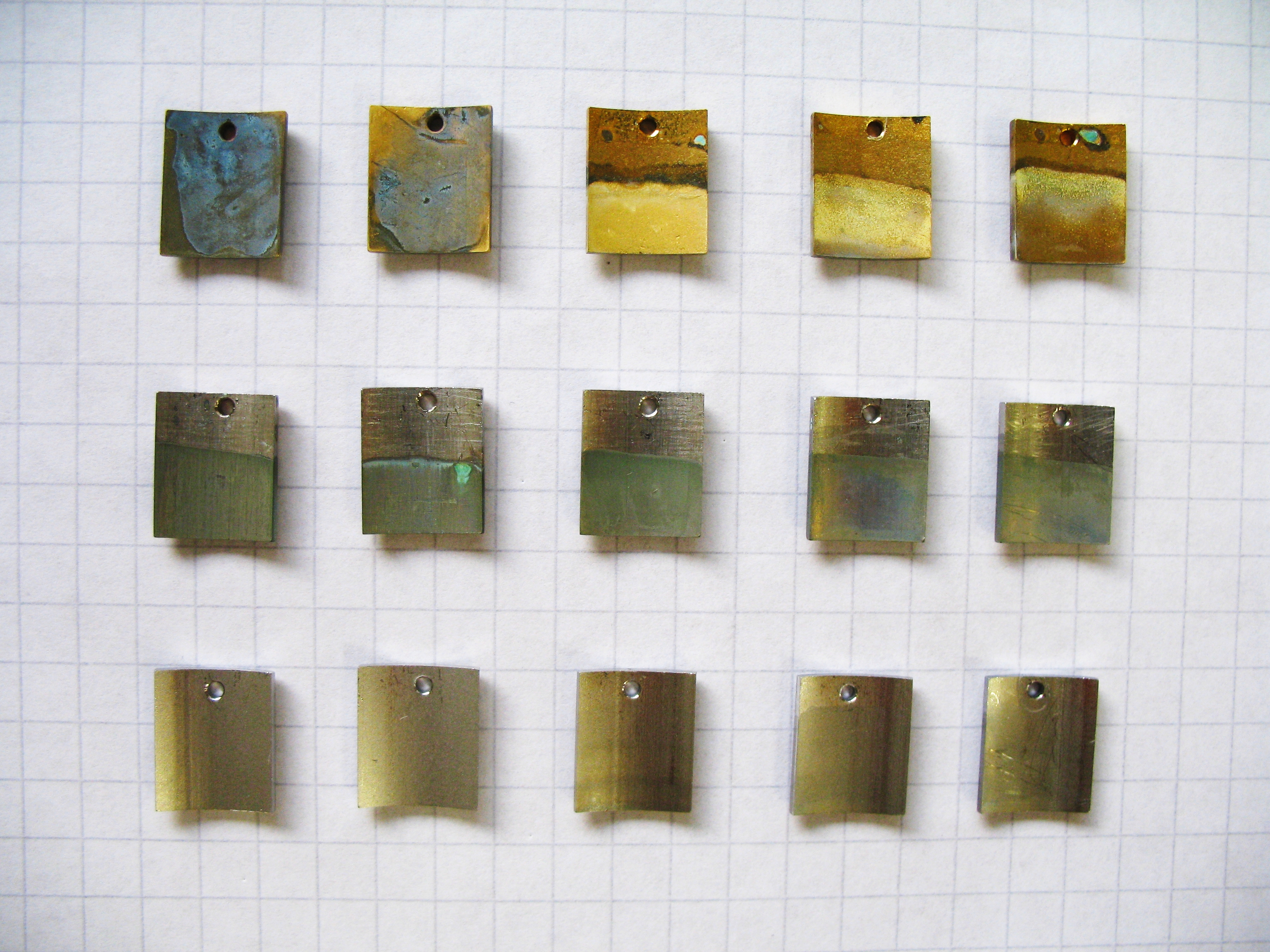 Alminium brass (top), copper-nickel 70/30 (middle) and stainless steel 304 (bottom) samples after two weeks in 3.5% NaCl.